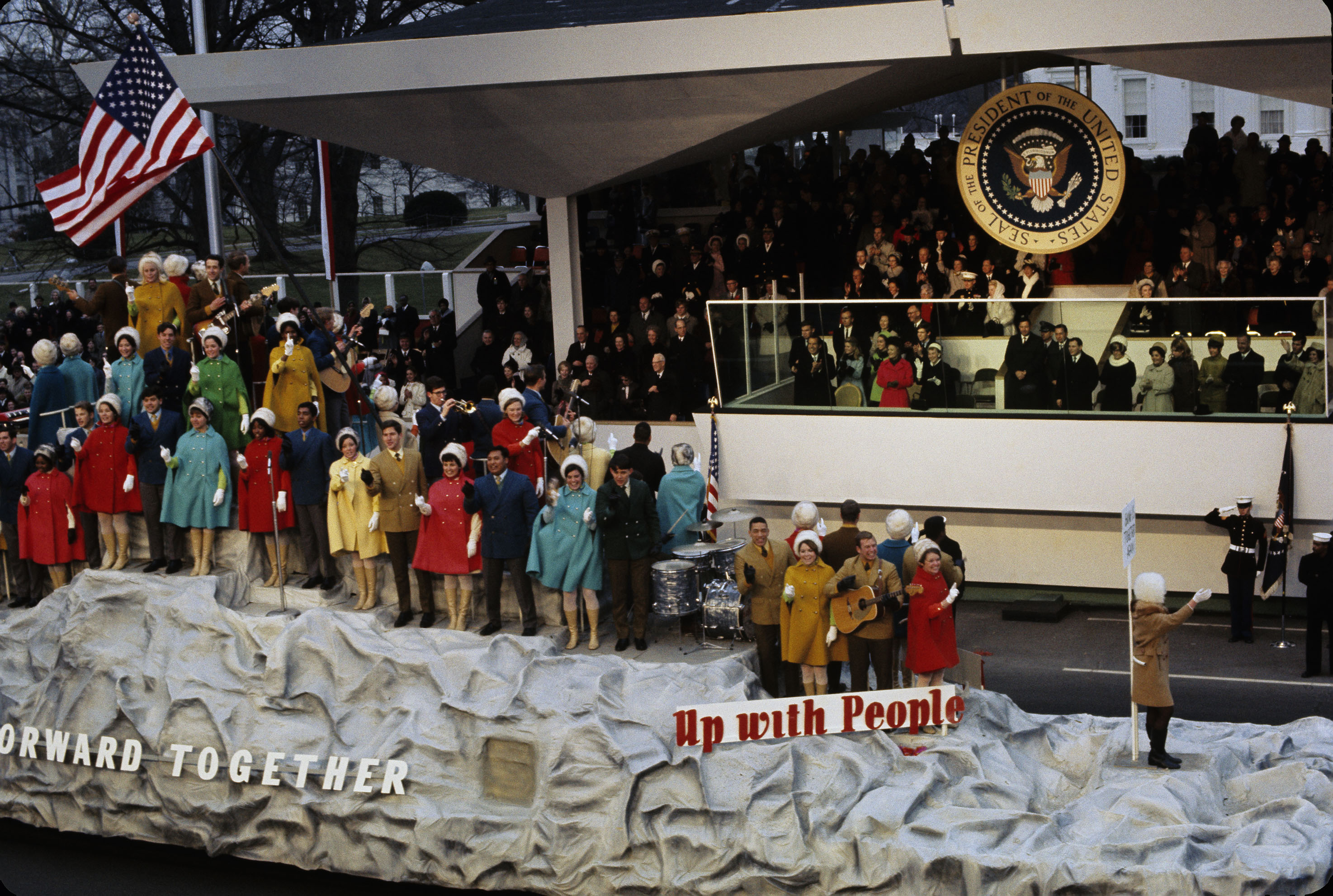 The "Forward Together" theme float passes by the Presidential reviewing stand as the Nixons and Agnews look on. Vicki Lynne Cole, of "Bring Us Together" fame stands in front of the float with her "BRING US TOGETHER AGAIN" sign.